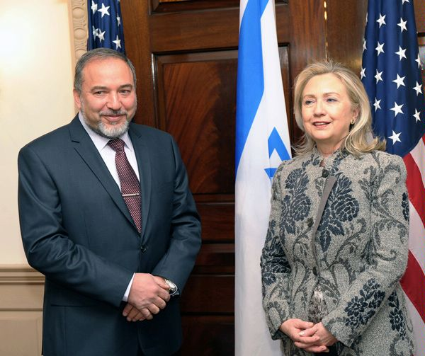 Secretary Clinton meets with Israeli Deputy Prime Minister and Foreign Minister Avigdor Liberman, at the Department of State.